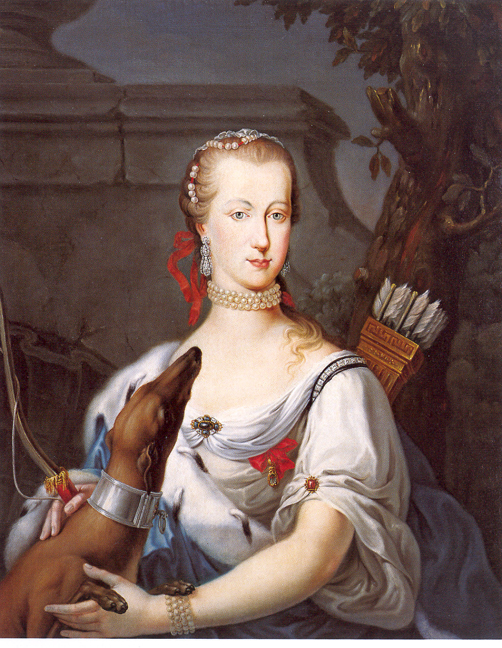 Archduchess Maria Amalia of Austria (1746-1804), Duchess of Bourbon-Parma, dressed like the Roman godess Diana